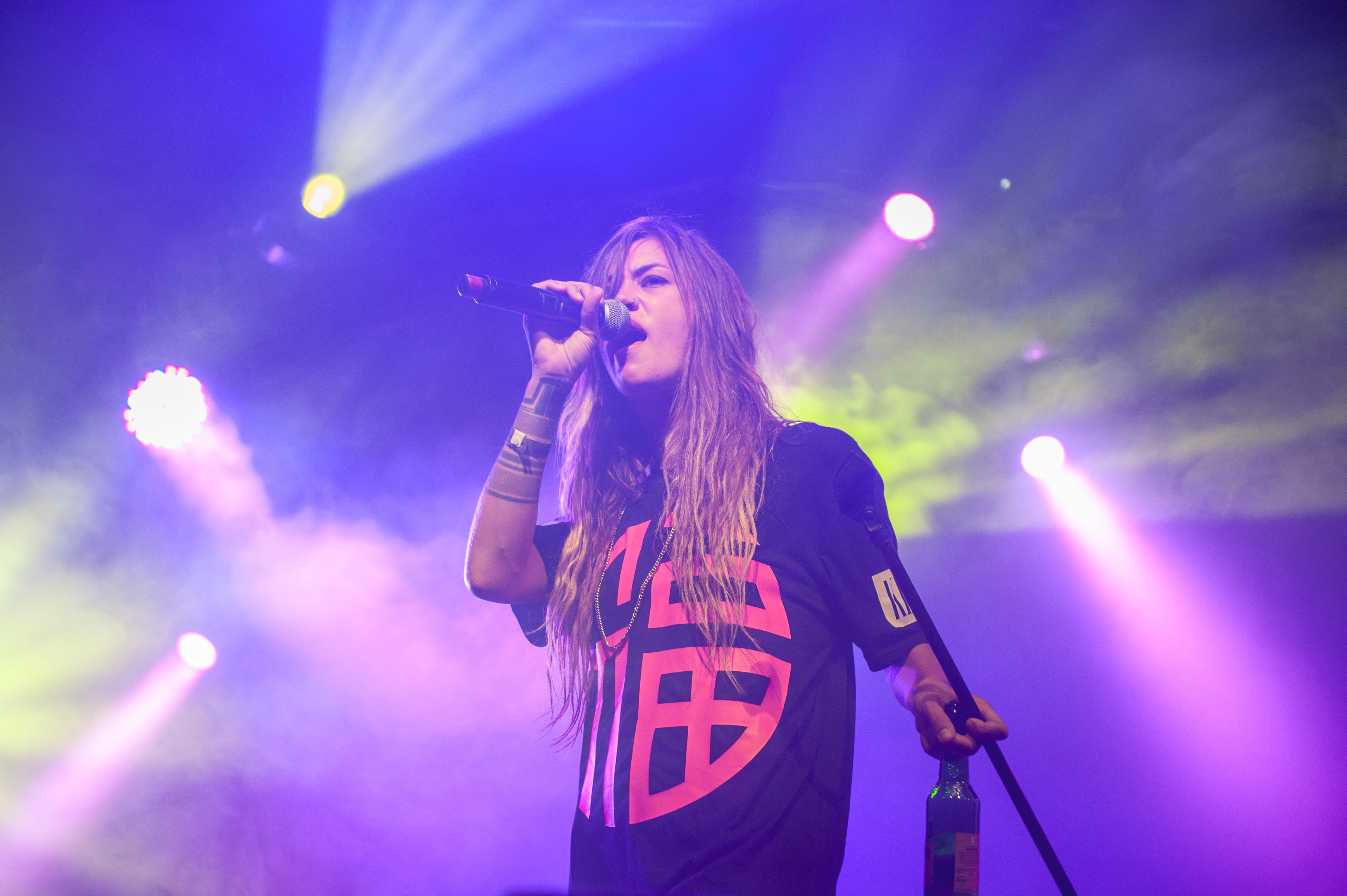 Elliphant at Way Out West in Gothenburg, Sweden, august 2014